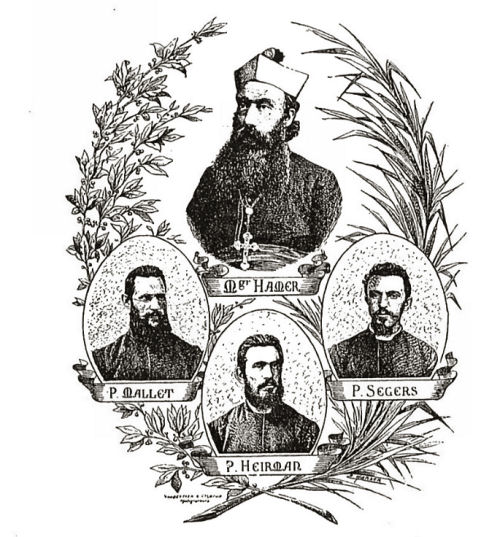 CICM Missionaries, Martyrs of the Boxer rebellion